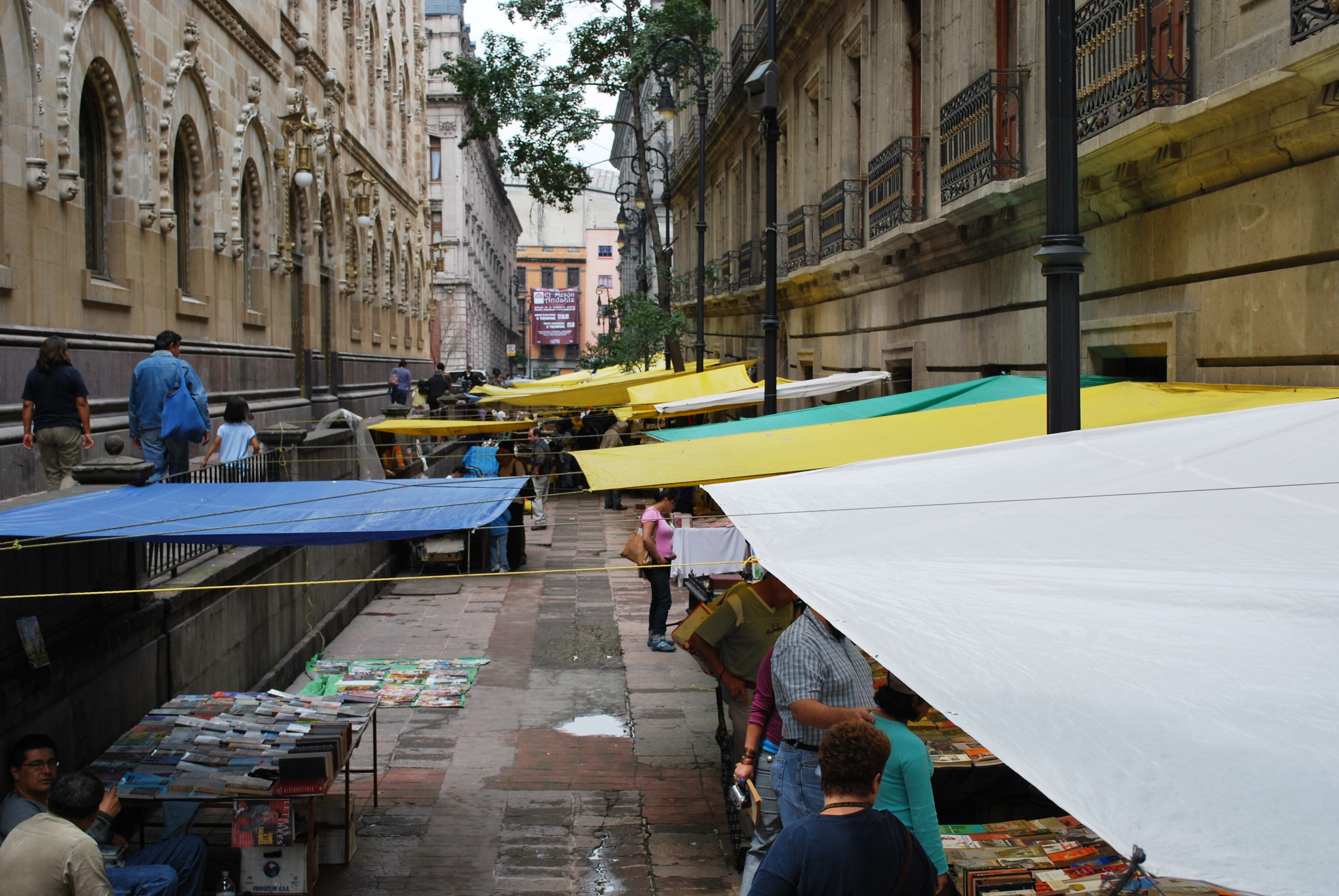 Callejon de la Condesa looking north next to the Bank of Mexico in the historic center of Mexico City. The street vendor are mostly selling books.